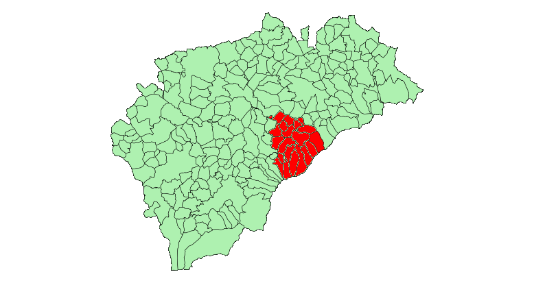 mapa villa y tierra de pedraza